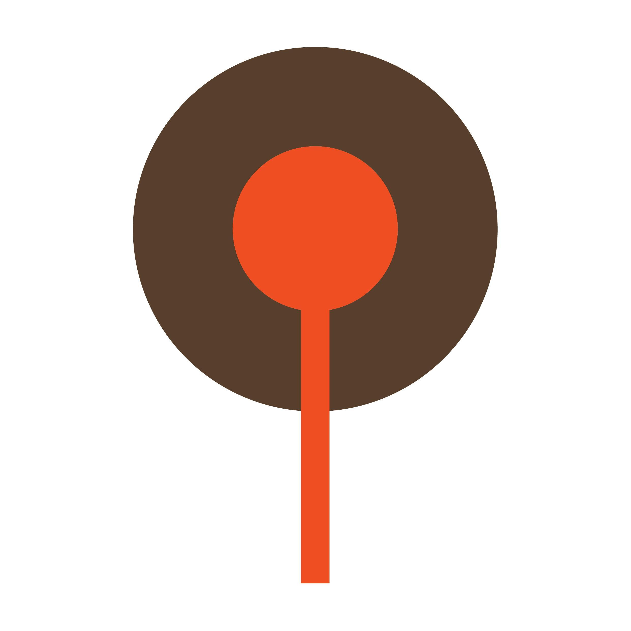 Logo of company Archeodienst.